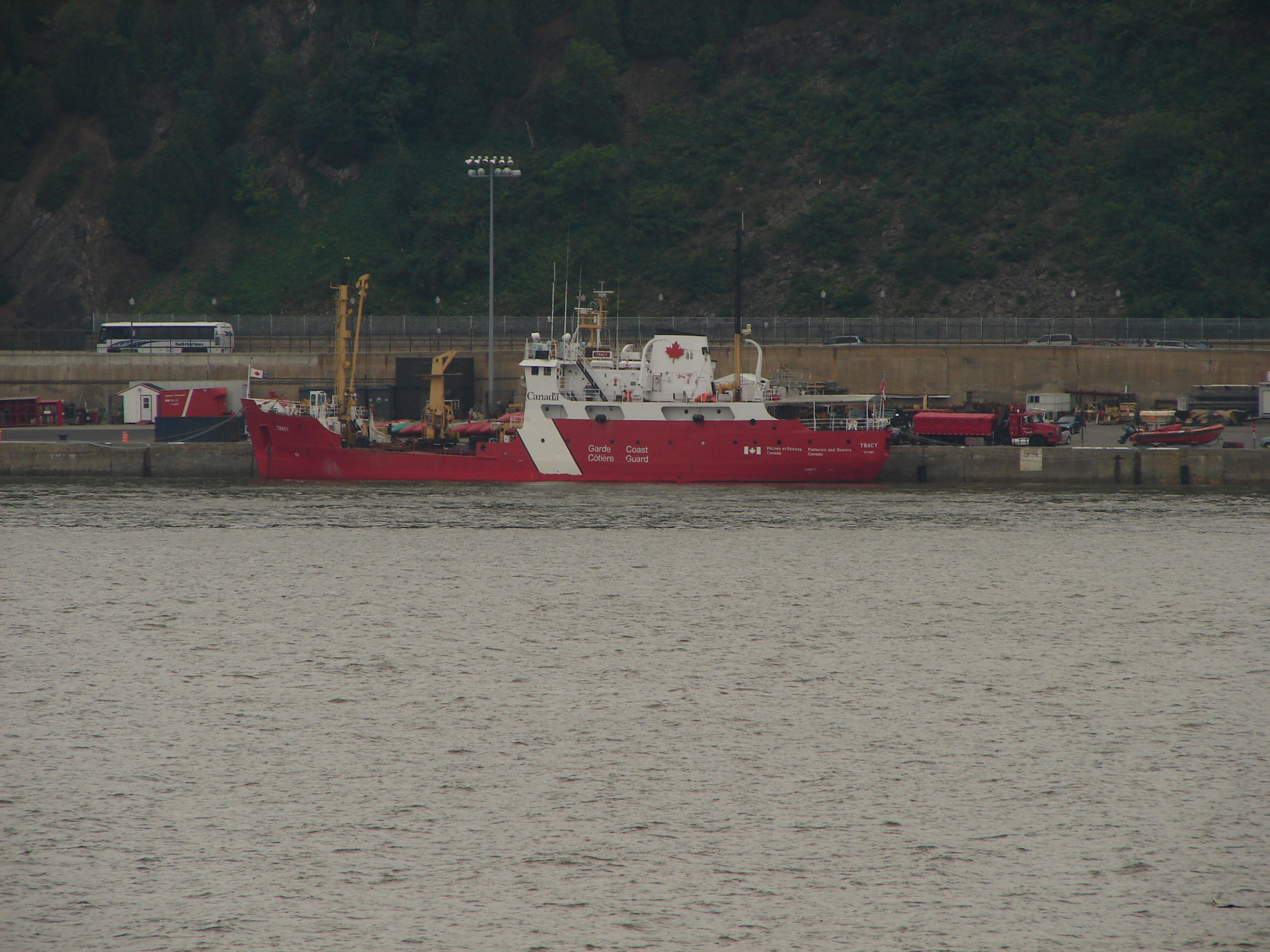 This boat is the Canadian Coast Guard Ship Tracy, a light icebreaker in the Canadian Coast Guard. IMO Number: 6725432 MMSI Number: 316001510 Callsign: CGBX Length: 55 m Beam: 11 m Source: Photo taken by me on the ferry between Quebec city and Lévis. Author: Miguel Tremblay Date: June 17th 2006